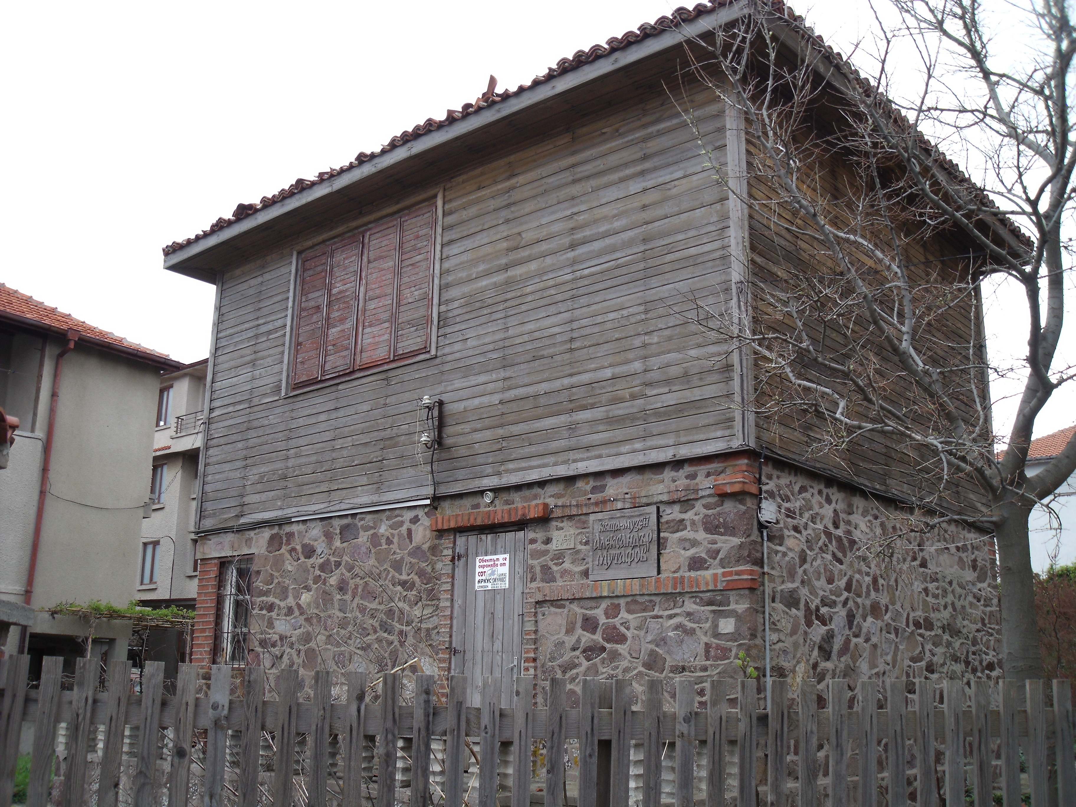 House-museum of Alexandar Mutafov in Sozopol, Bulgaria